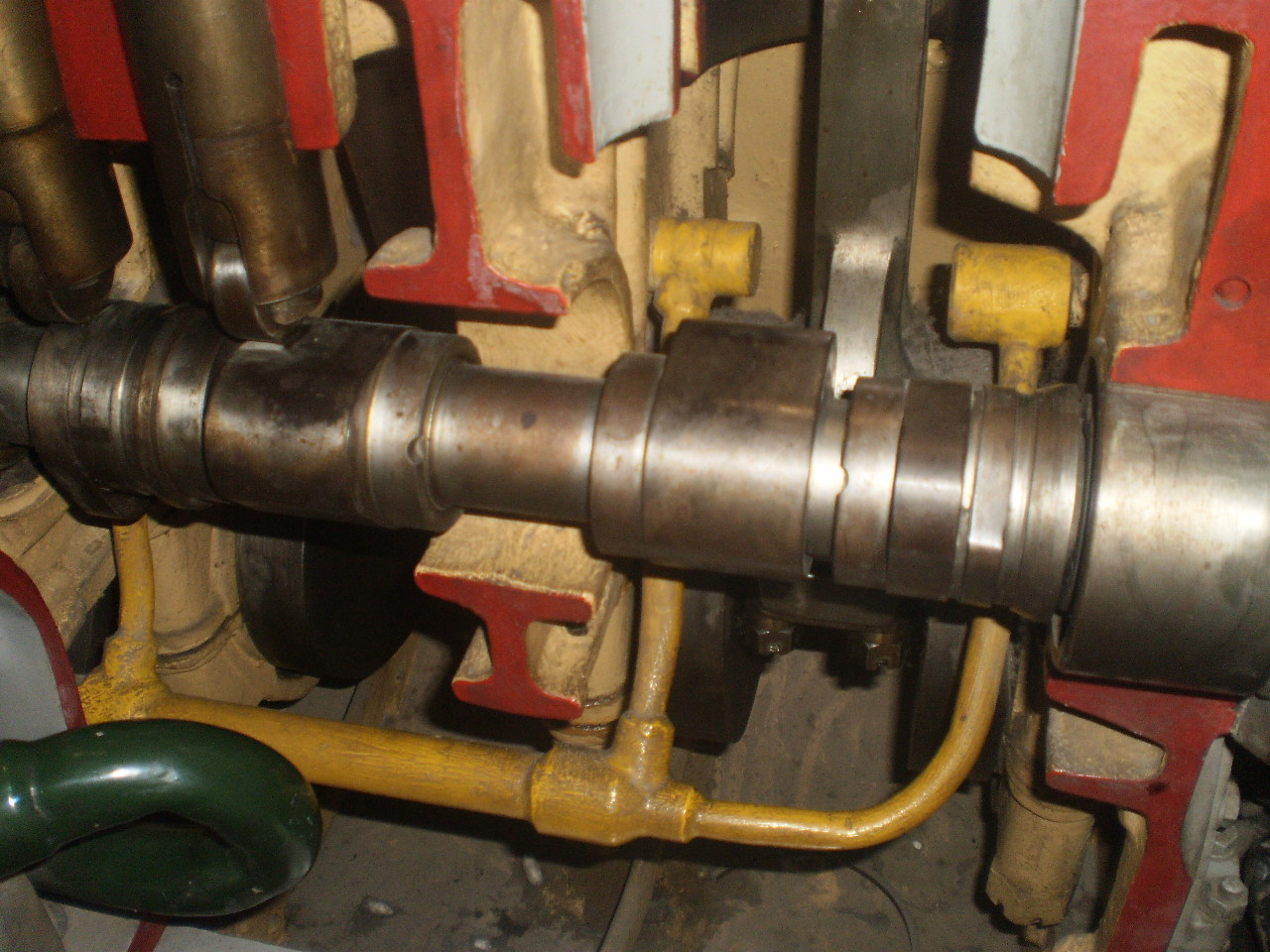 Camshaft of a Jendrassik Diesel-motor from 1934